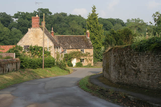 Church Lane, Lyndon. This is still mainly an estate village. for information and history of the village and the estate.